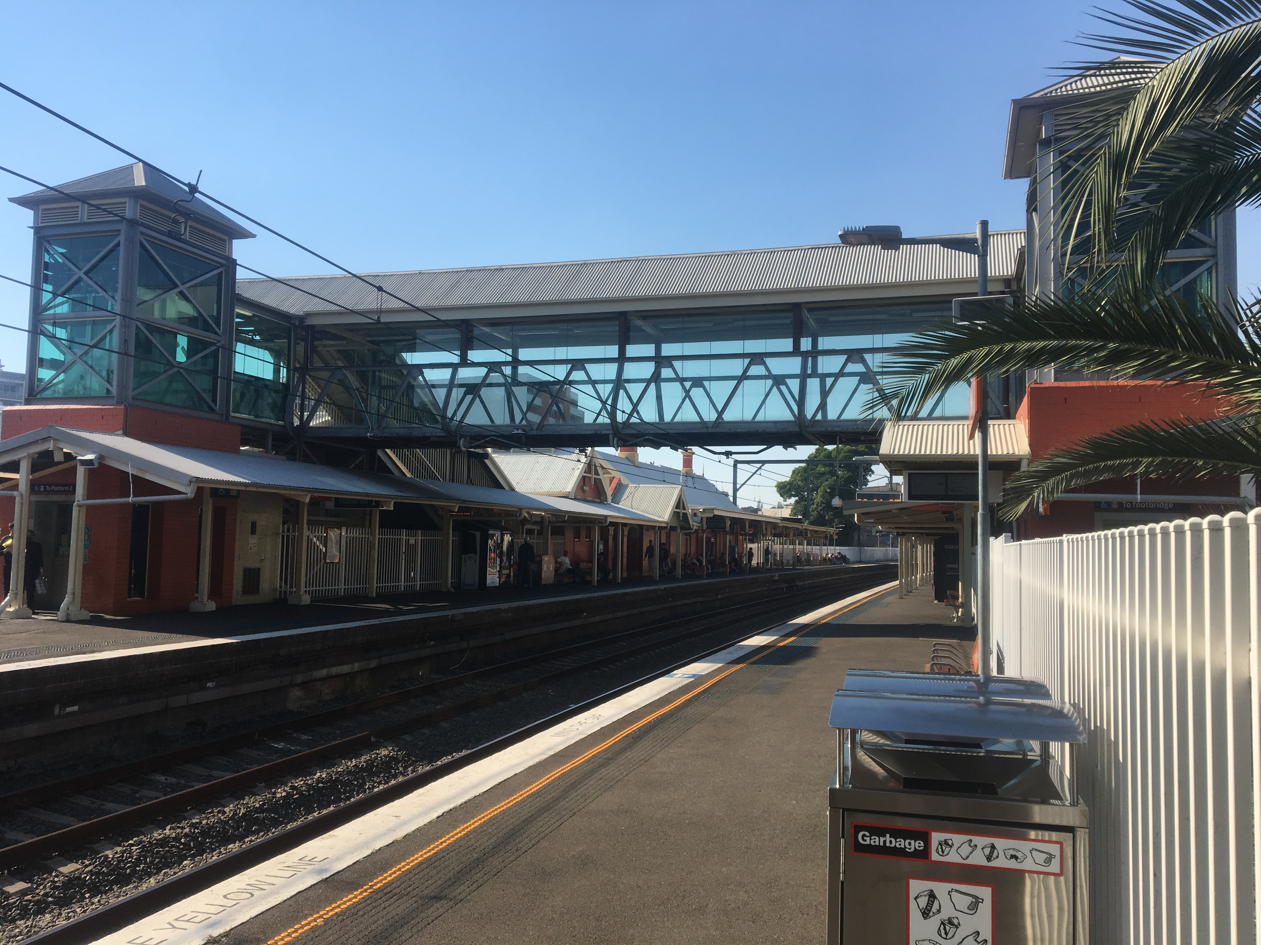 Fairfield railway station